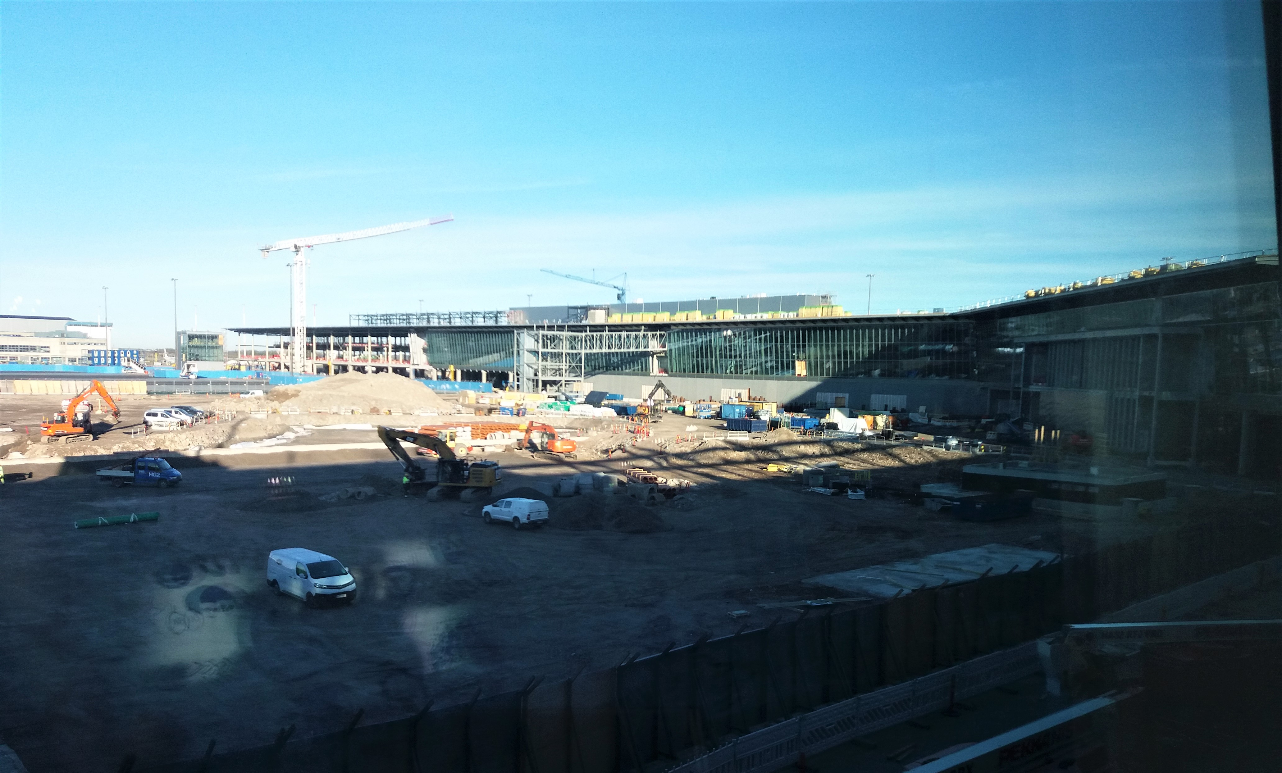 Terminal 2 western expansion site at Helsinki Airport seen from the south wing completed in 2017.